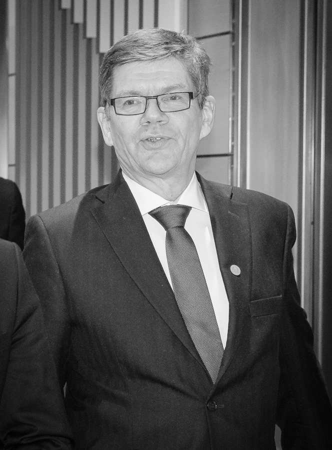 Svein Stølen, professor and president UiO, guest at Governor Øystein Olsen's annual address in February 2018